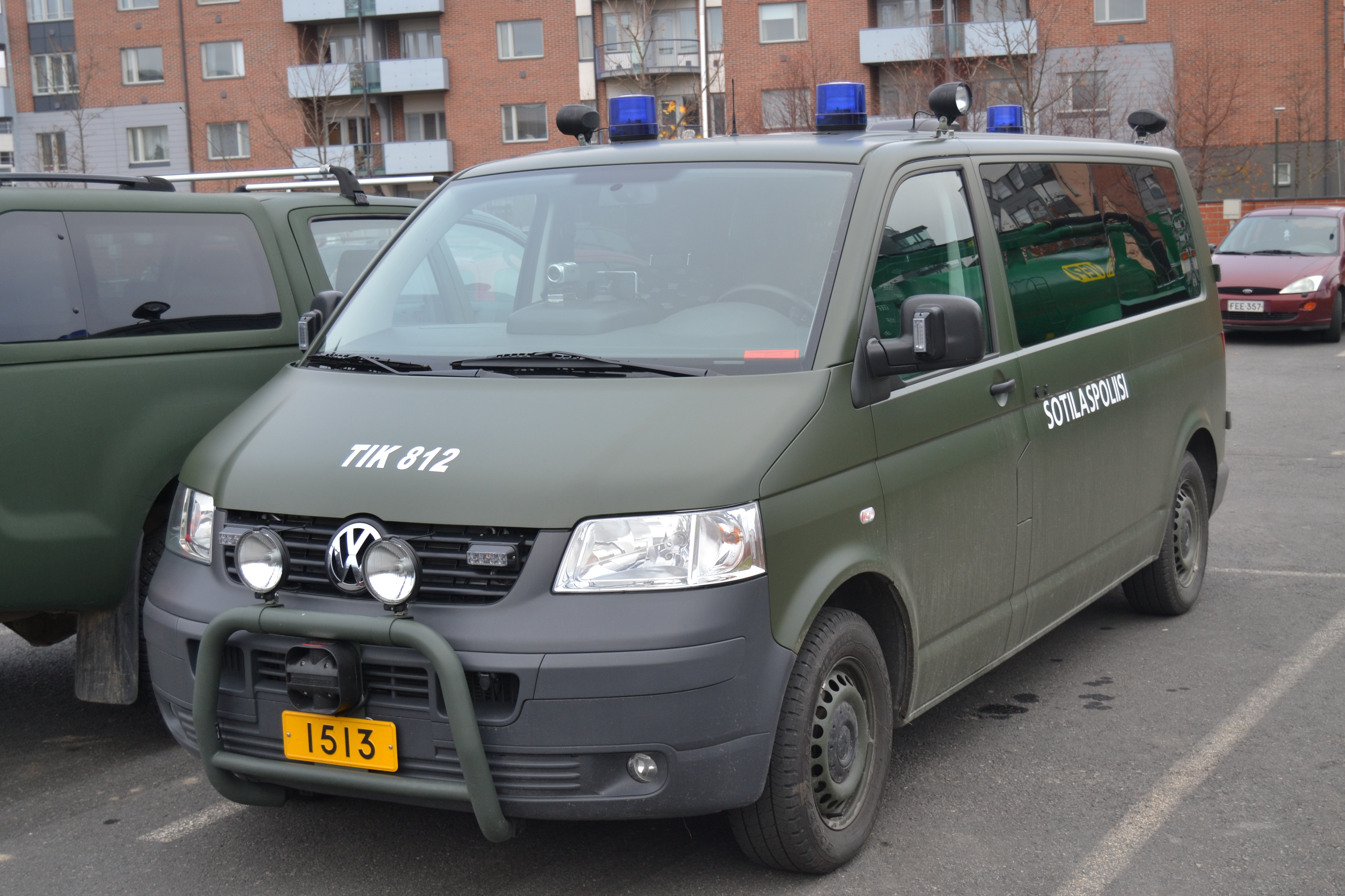 Volkswagen military police van in Jyväskylä, Finland